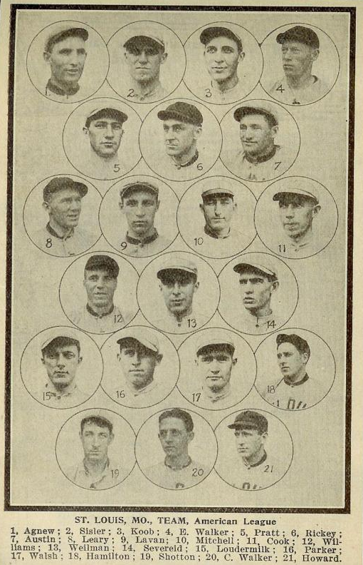 The 1915 St. Louis Browns. Gus Williams is labeled as "12".